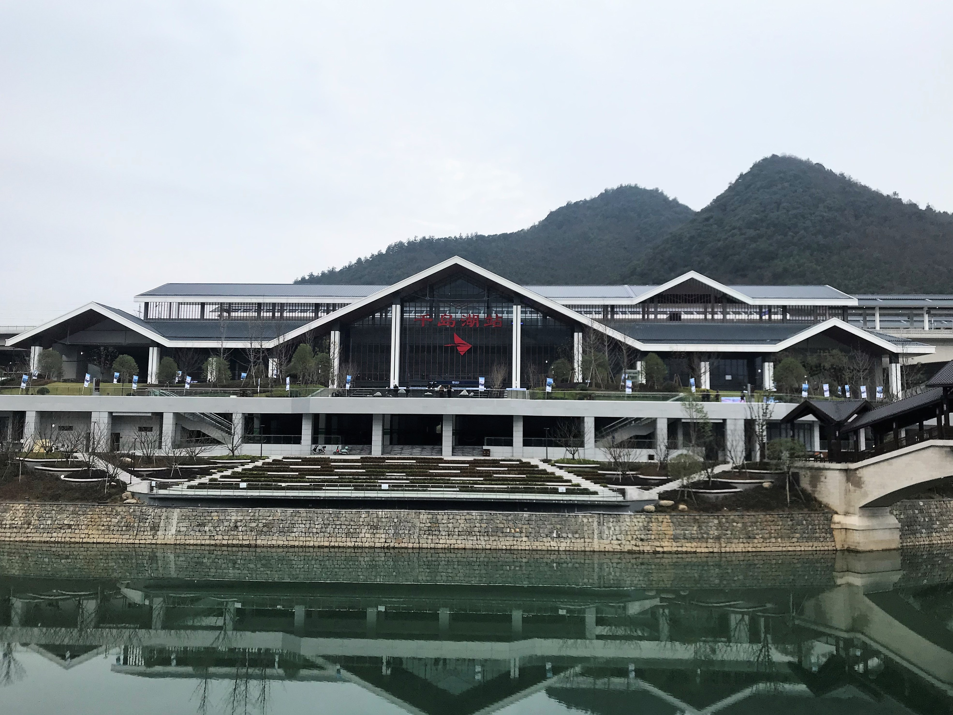 201812 Qiandaohu Railway Station Building. Haven't seen such a beautiful train station for a while.